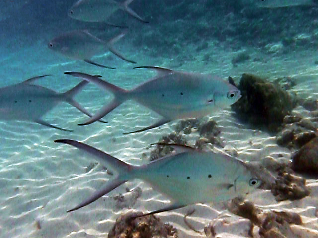 Mirihi, Maldives Feb. 2011